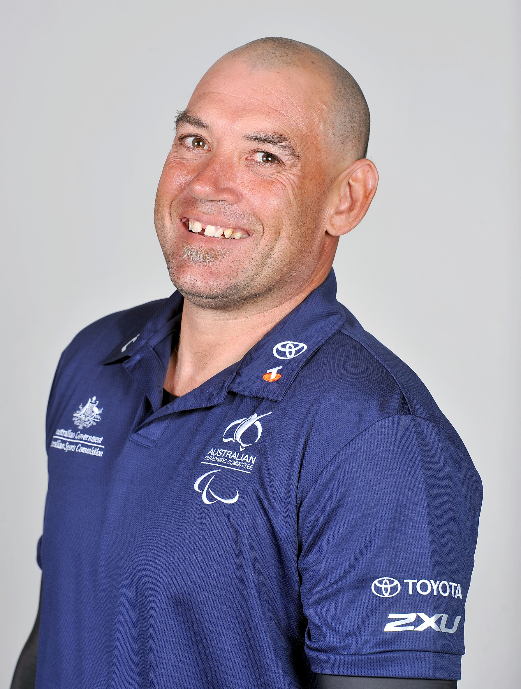 Portrait of Australian cyclist Stuart Tripp, 2012 Australian Paralympic (shadow) Team athlete